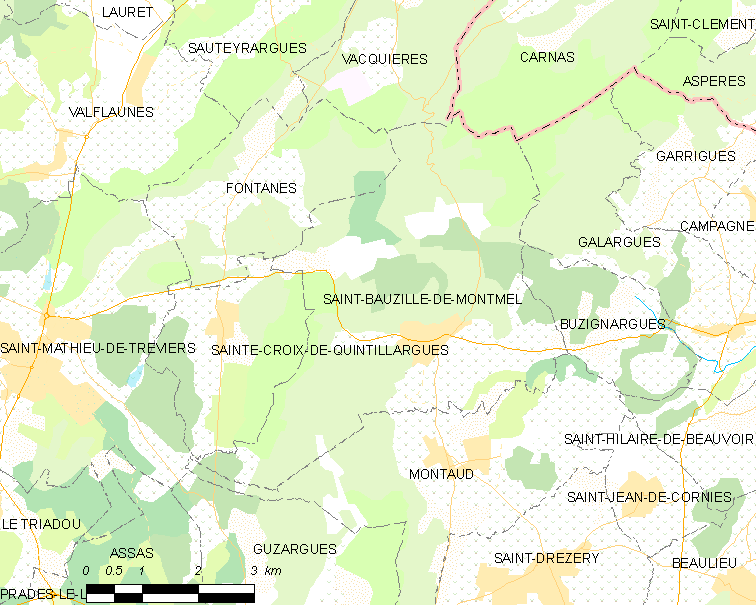 Map commune FR insee code 34242.png - Saint-Bauzille-de-Montmel